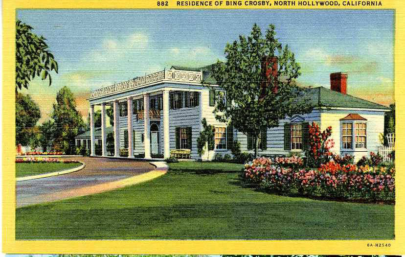 882, Residence of Bing Crosby, North Hollywood